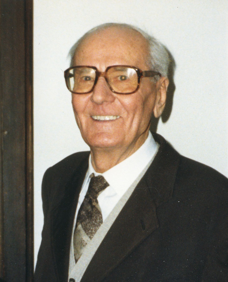 Heinz von Sauter (1910–1988), German author and translator